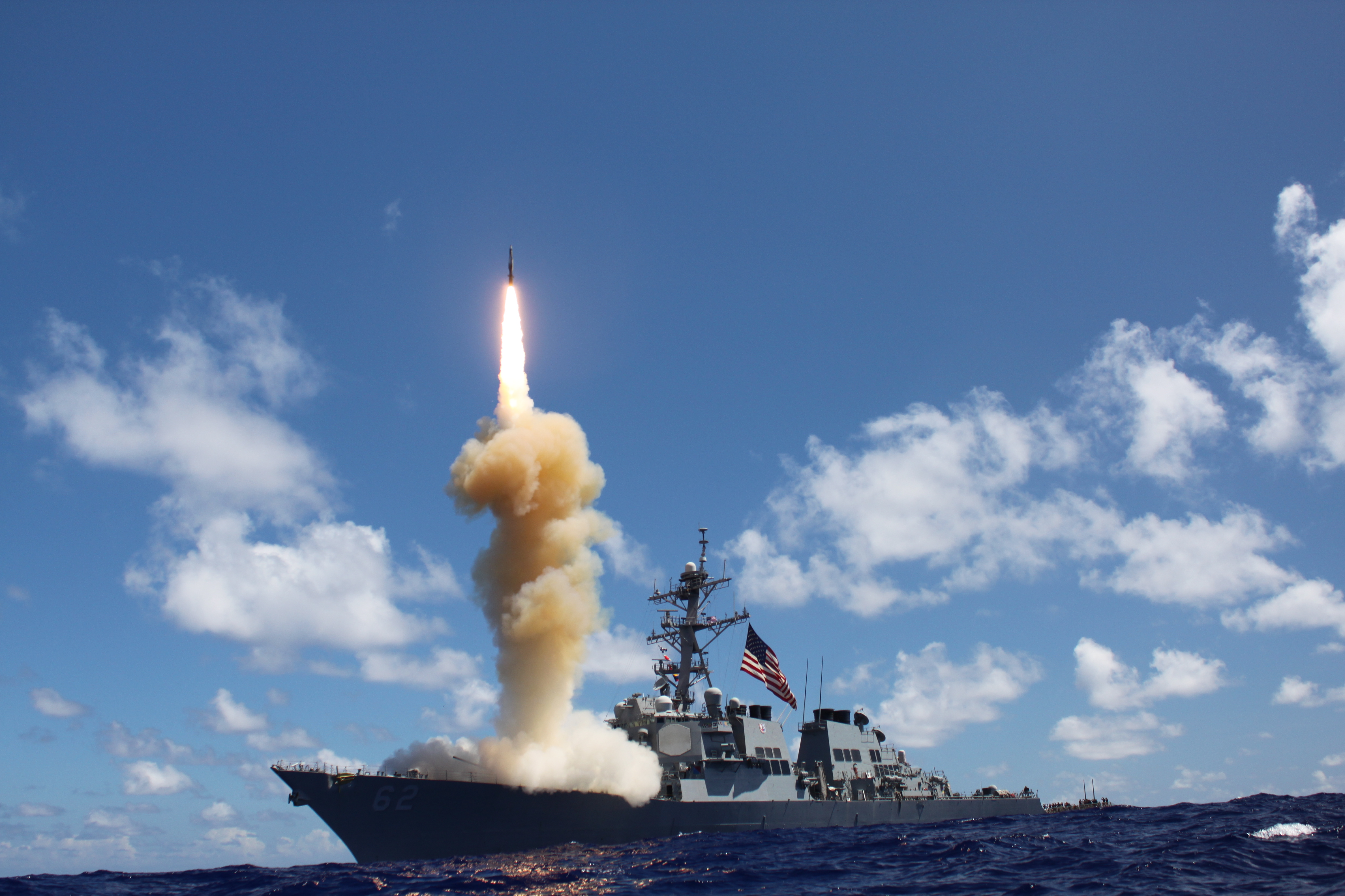 PACIFIC OCEAN (Oct. 25, 2012) The guided-missile destroyer USS Fitzgerald (DDG 62) launches a Standard Missile-3 (SM-3) as apart of a joint ballistic missile defense exercise. America’s Sailors are Warfighters, a fast and flexible force deployed worldwide. Join the conversation on social media using #warfighting. (U.S. Navy photo/Released) 121025-N-ZZ999-201 Join the conversation navylive.dodlive.mil